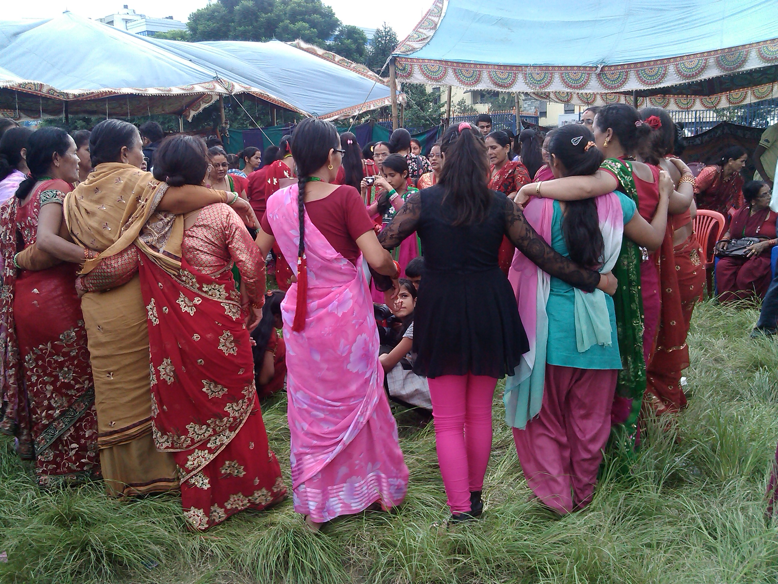 टुडीखेल, काठमाडौँमा खेलेको देउडा खेल